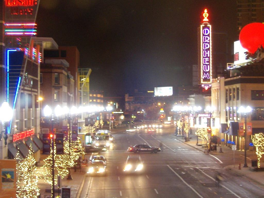 Hennepin Avenue, Minneapolis, Minnesota.Image is cropped and resized.